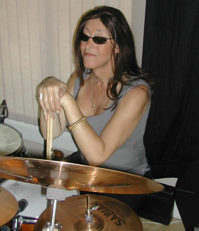 Billie Davies, female Avant Garde Jazz drummer.